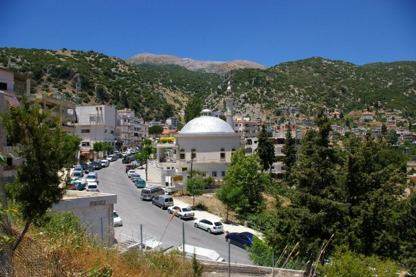 Peak of Mount Aqraa (Mount Casius) overlooking town of Kesab, with the Kessab mosque (2009). Located in Hatay Province, on the eastern Mediterranean, in extreme southeastern Turkey near the Syrian-Turkish border. Natural hillside flora is in the Eastern Mediterranean conifer-sclerophyllous-broadleaf forests ecoregion,of the Mediterranean forests, woodlands, and scrub Biome.